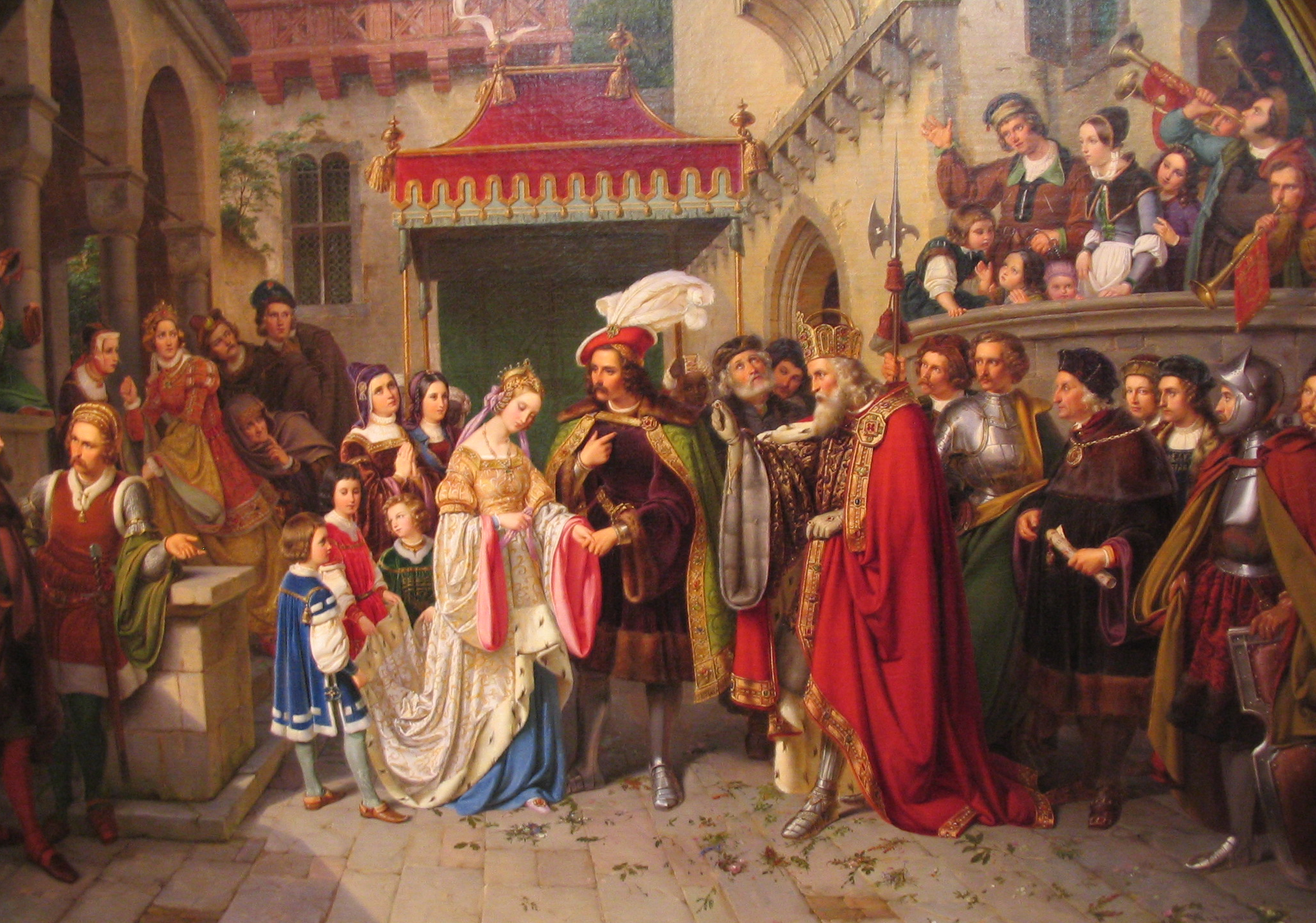 Five scenes inspired by Heinrich von Kleist's play Das Käthchen of Heilbronn (1807–1808), premiéred 1810 at Vienna (detail)